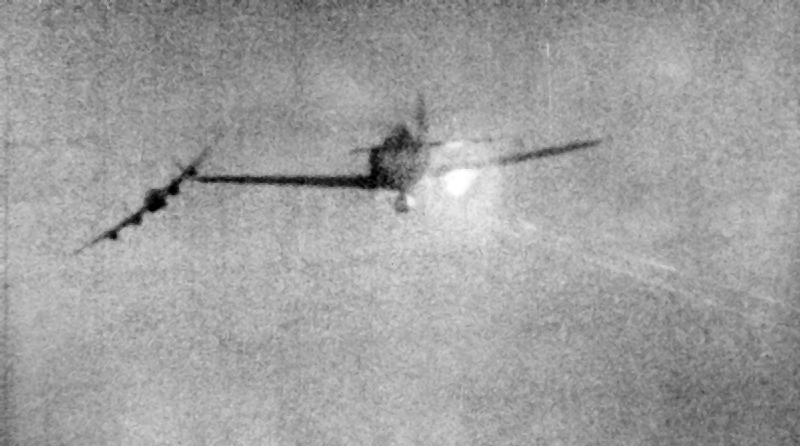 Still from camera gun footage shot from a North American Mustang Mark III flown by Flying Officer J. Butler of No. 65 Squadron RAF, as he shot down a Focke-Wulf Fw 190D of II/JG 26 which was attempting to attack an Avro Lancaster (banking, left), during a daylight raid by the RAF Bomber Command on the Gremberg railway yards at Cologne, Germany.